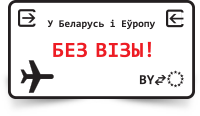 Novisa